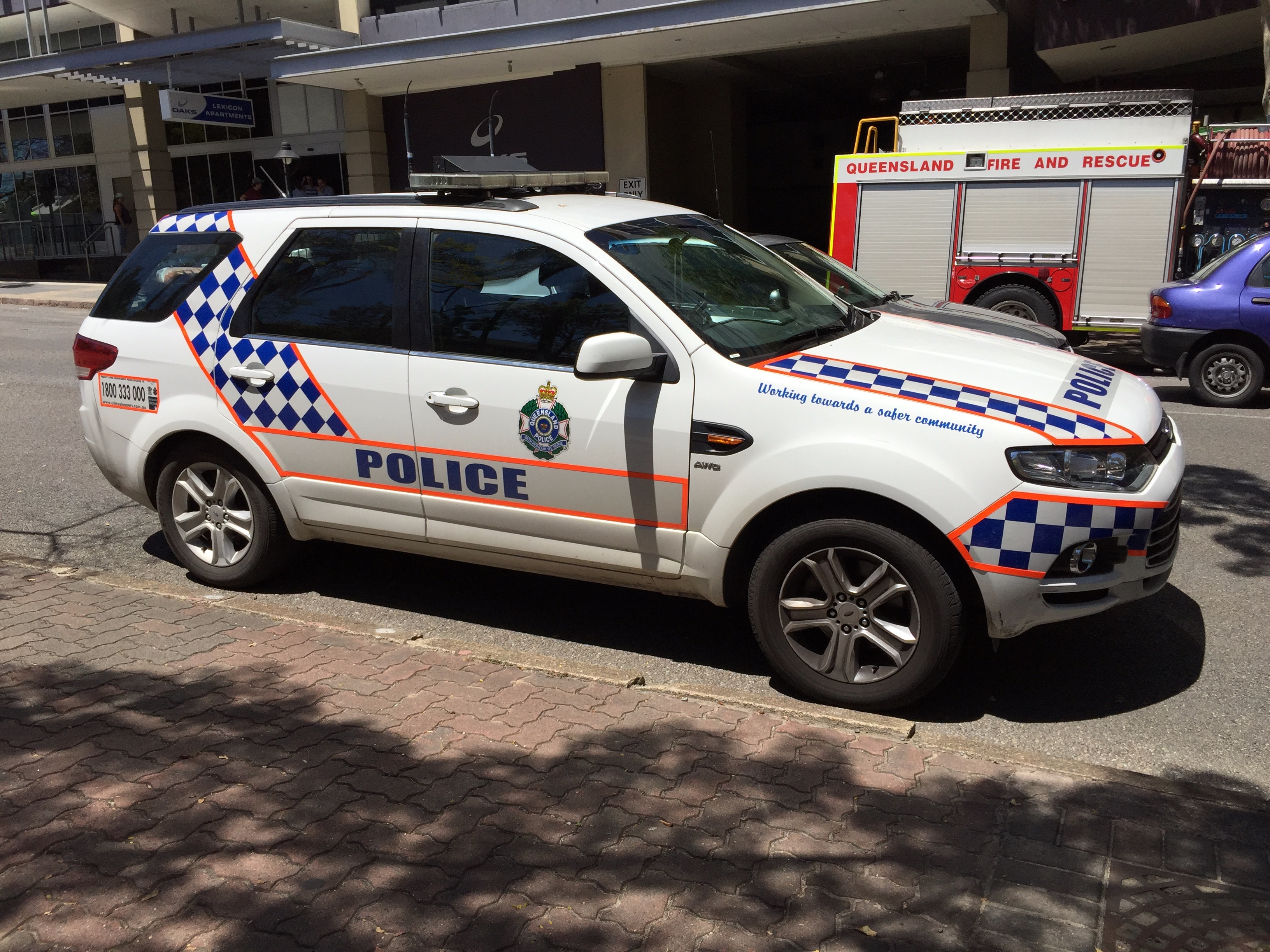 Ford Territory Vehicle of the Queensland Police